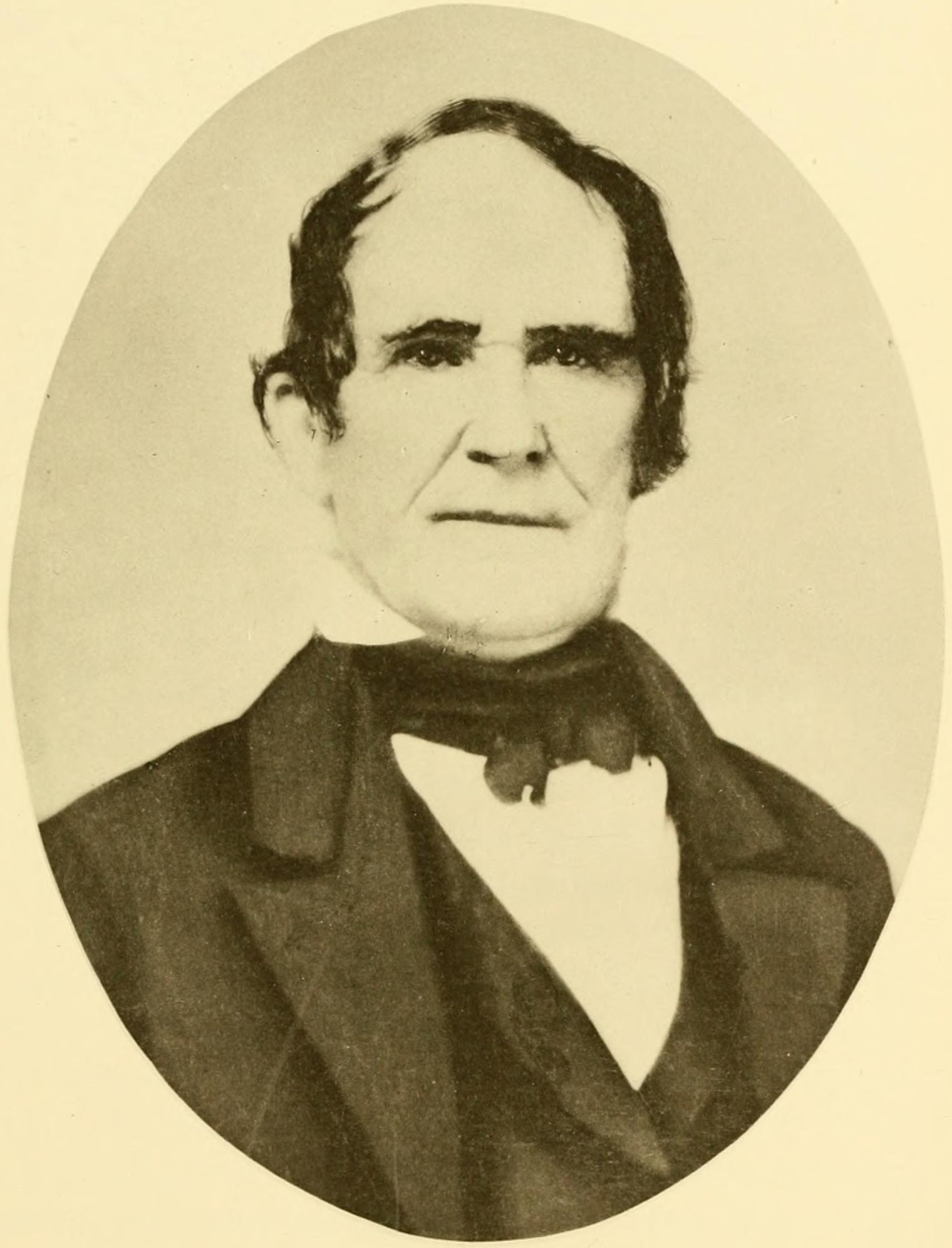 Matthew Harvey, New Hampshire Congressman and Governor